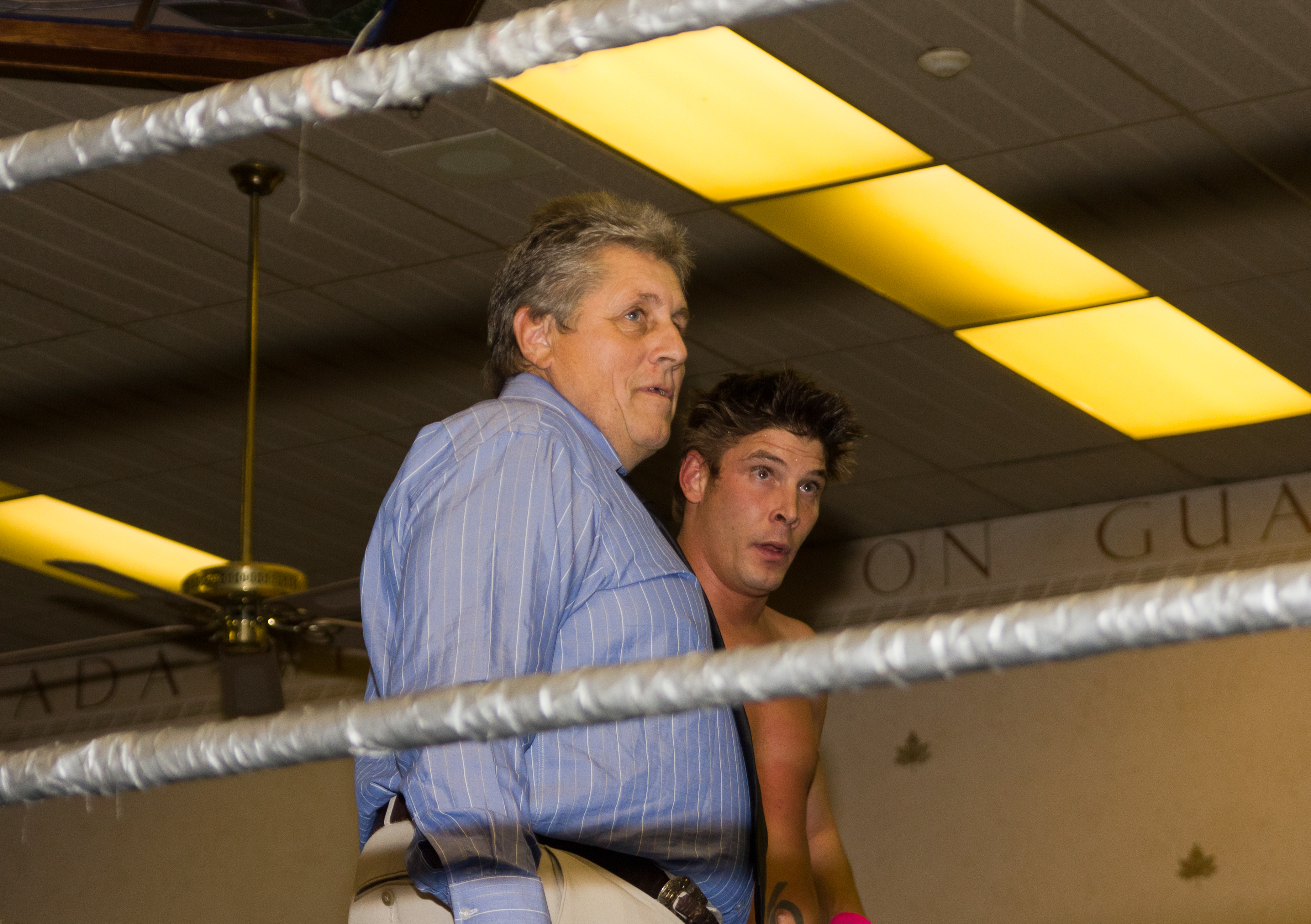 Smith Hart (foreground) with son Mike Hart (background), November 6 2011.